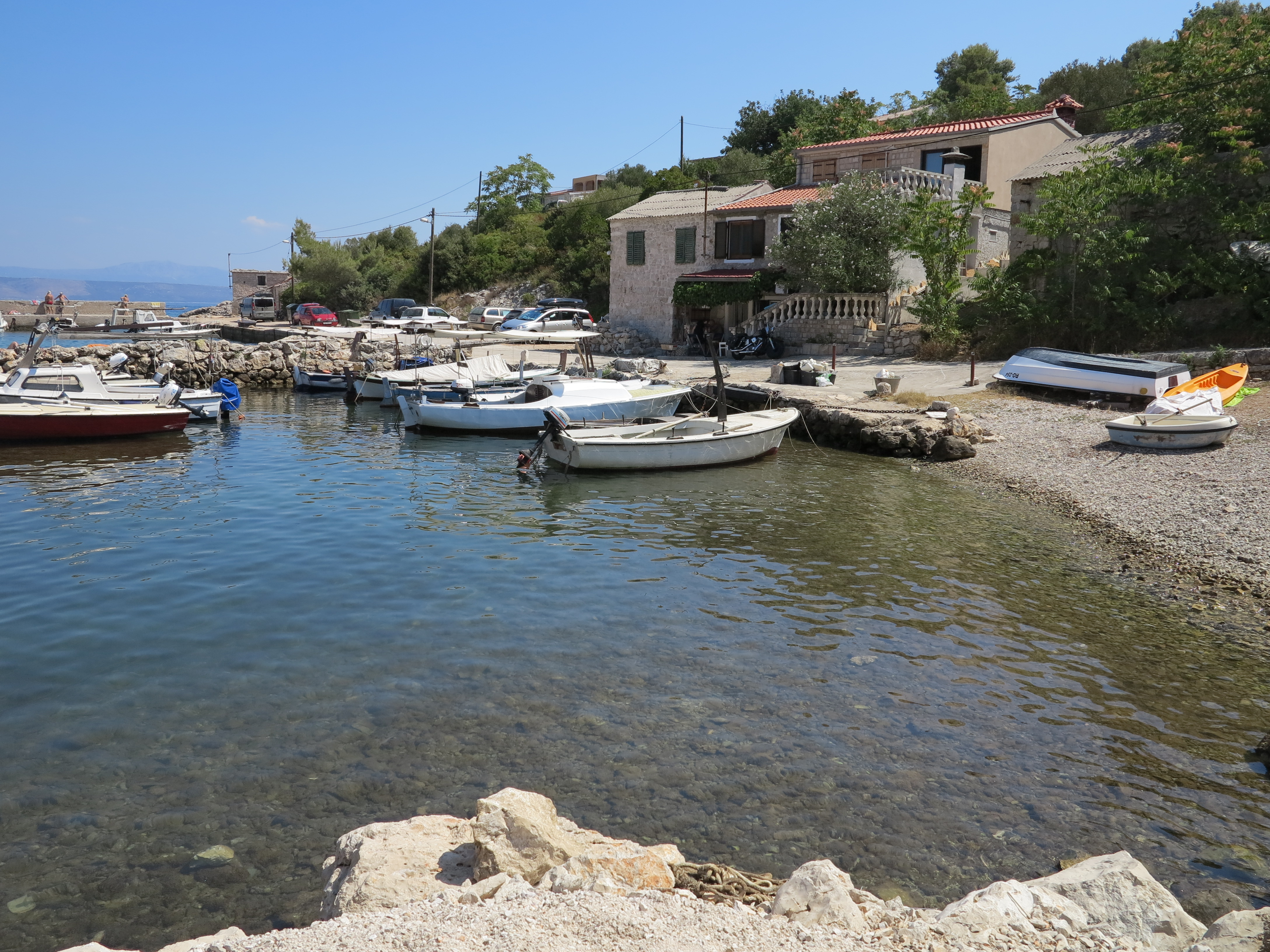 Donja Krušica, the habour of Donje Selo on the island Šolta / Croatia / Adriatic Sea.